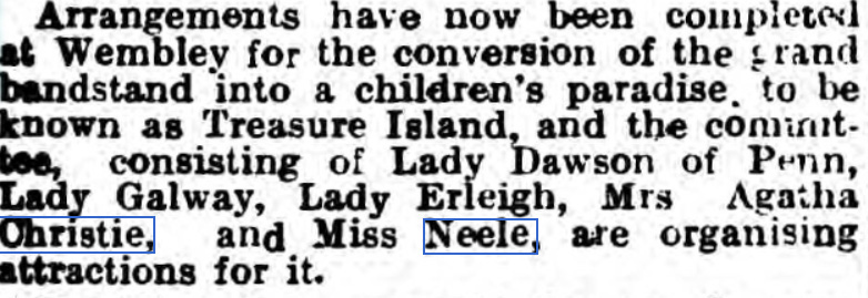 Notice in the newspaper Southern Reporter about the members of a Committee for the British Empire Exhibition to be held in 1925